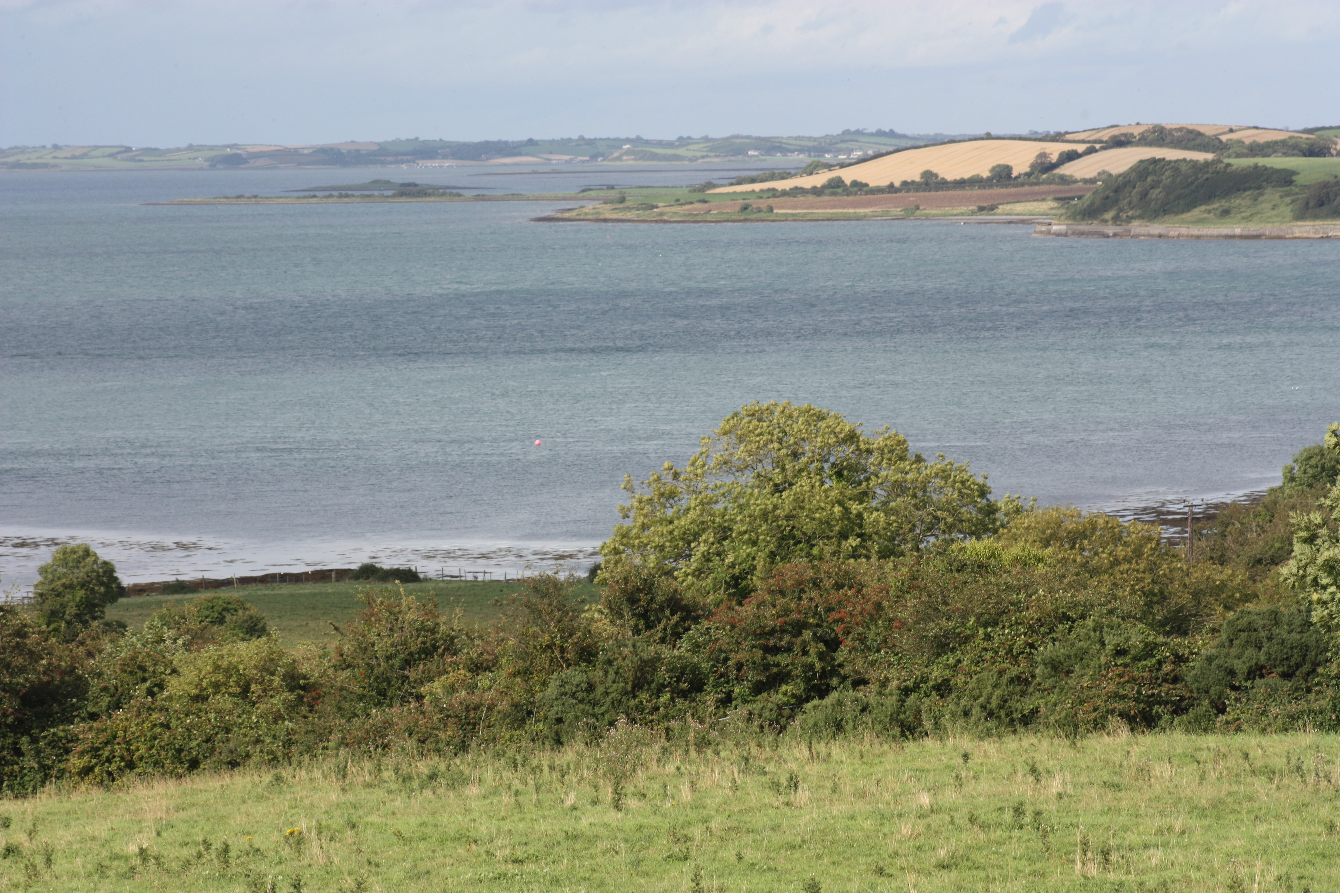 Strangford Lough, County Down, Northern Ireland, August 2009 (viewed from nearby Audleystown Court Cairn)